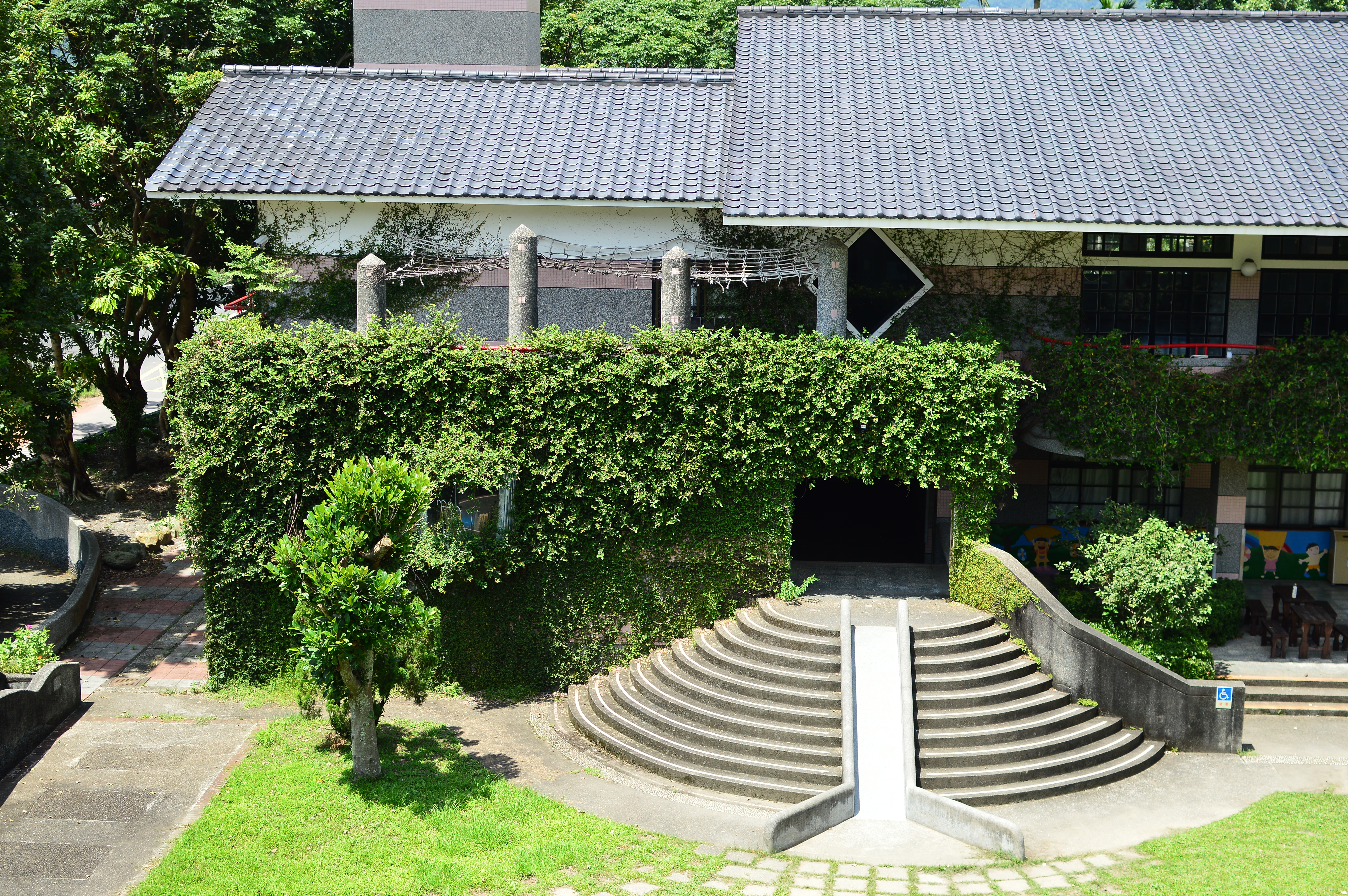 中文（台灣）: 宜蘭縣蘇澳鎮蓬萊國民小學2017 Perng-Lai Elementary School, Yi-Lan